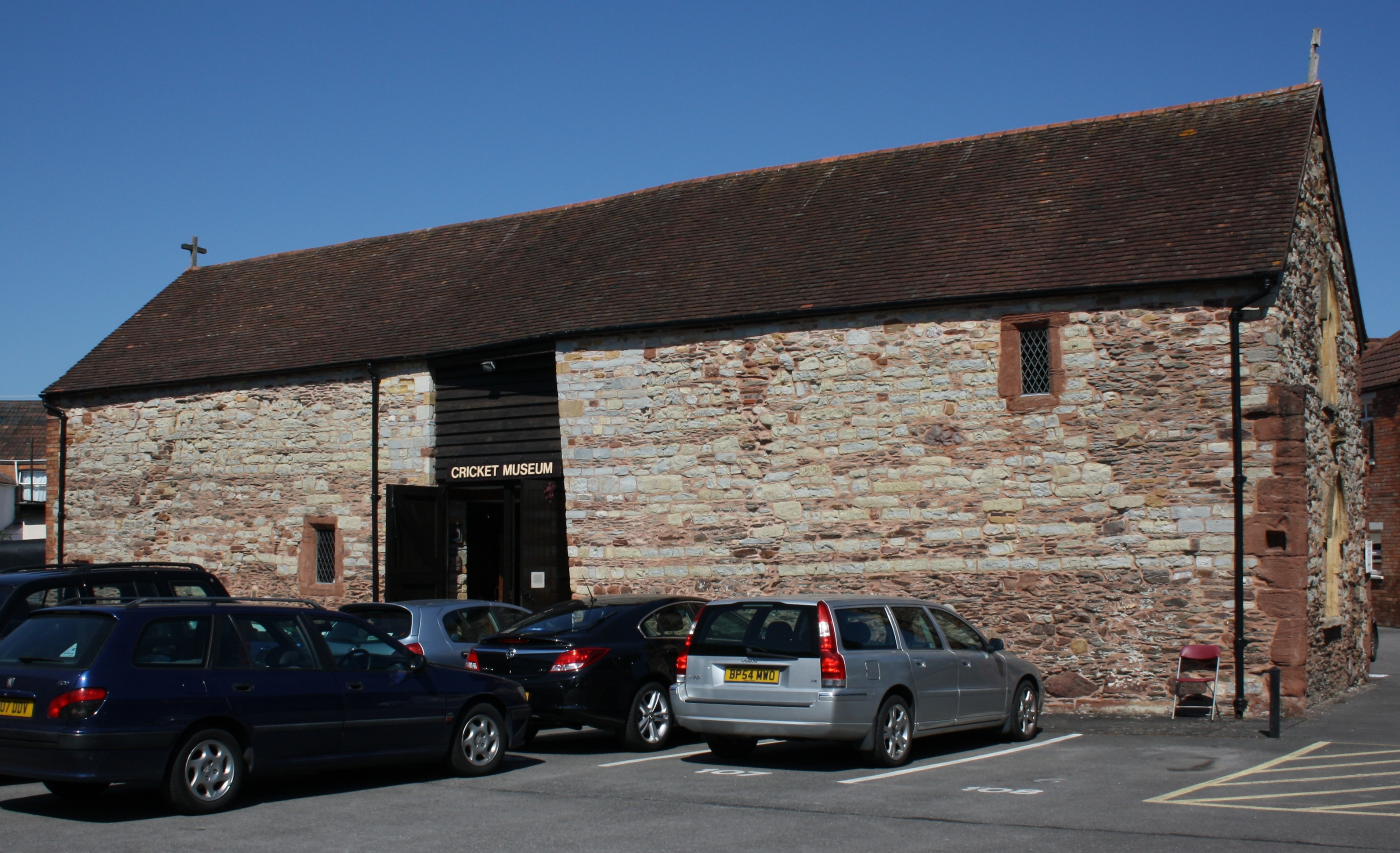 Somerset Cricket Museum, located at the County Ground, Taunton.